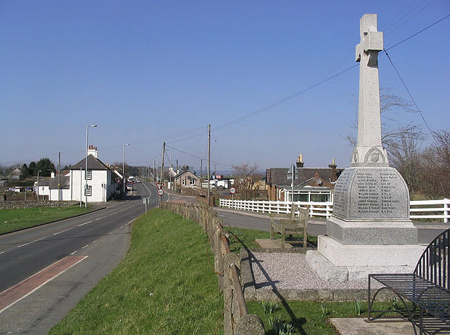 Closeburn War Memorial